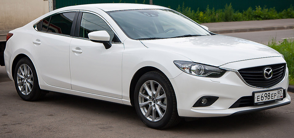 2013 Mazda6 (GJ) 2.0 Active sedan, photographed in Europe